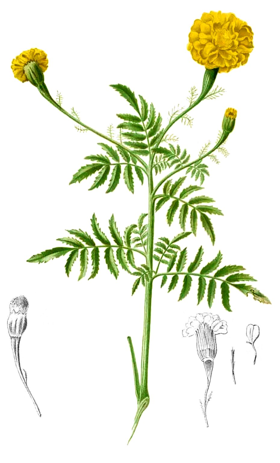 Plate from book